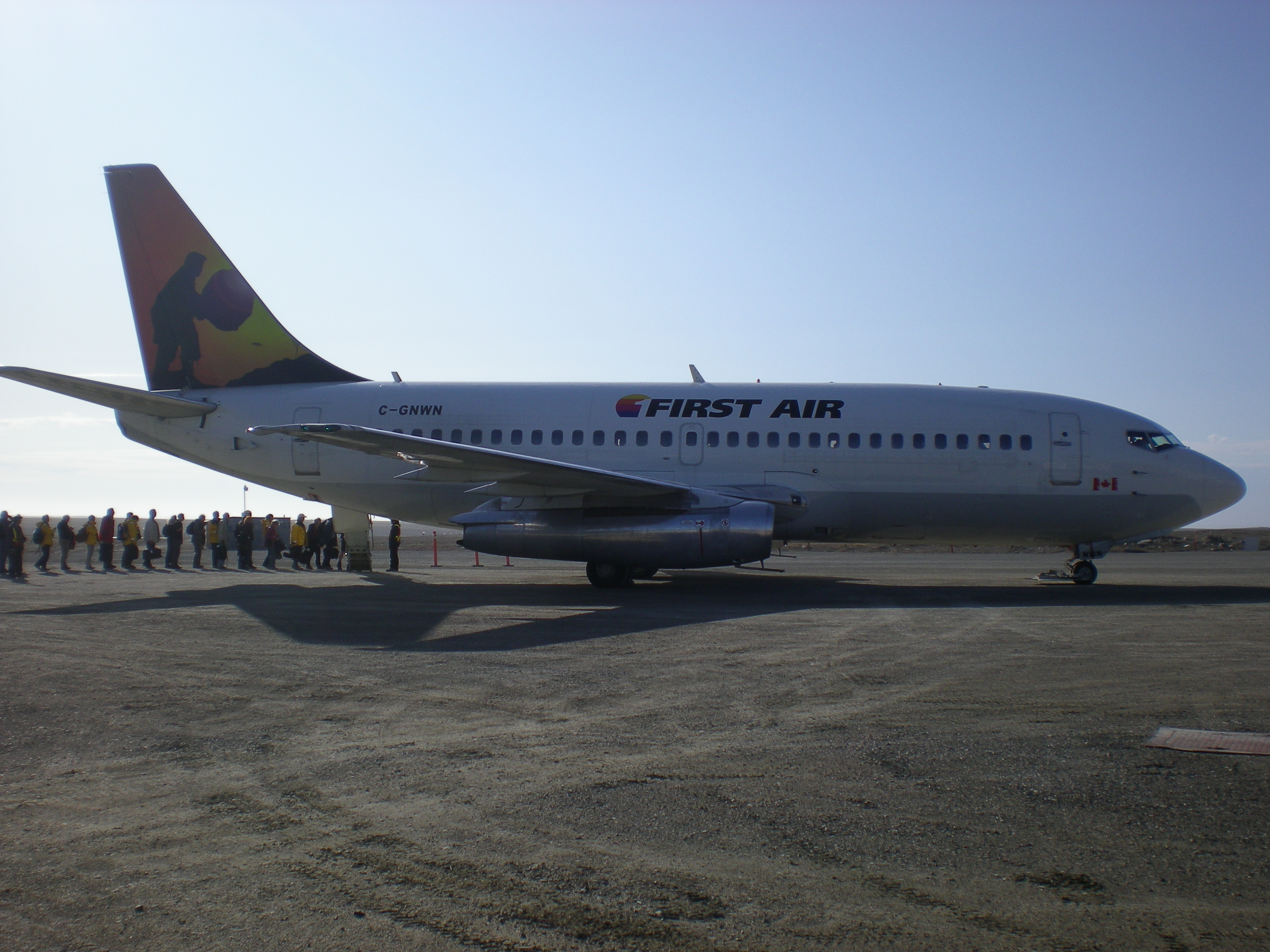 First Air 737-200 C-GNWN at Cambridge Bay 2009-09-06. The aircraft had flown from Ottawa to pick up a group of tourists that had been touring the Northwest Passage aboard the Akademik Ioffe